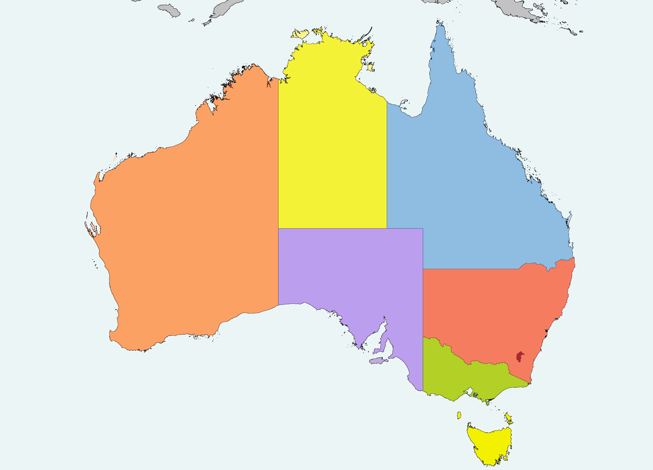 Map of the Australian states / Mapa dels estats australians